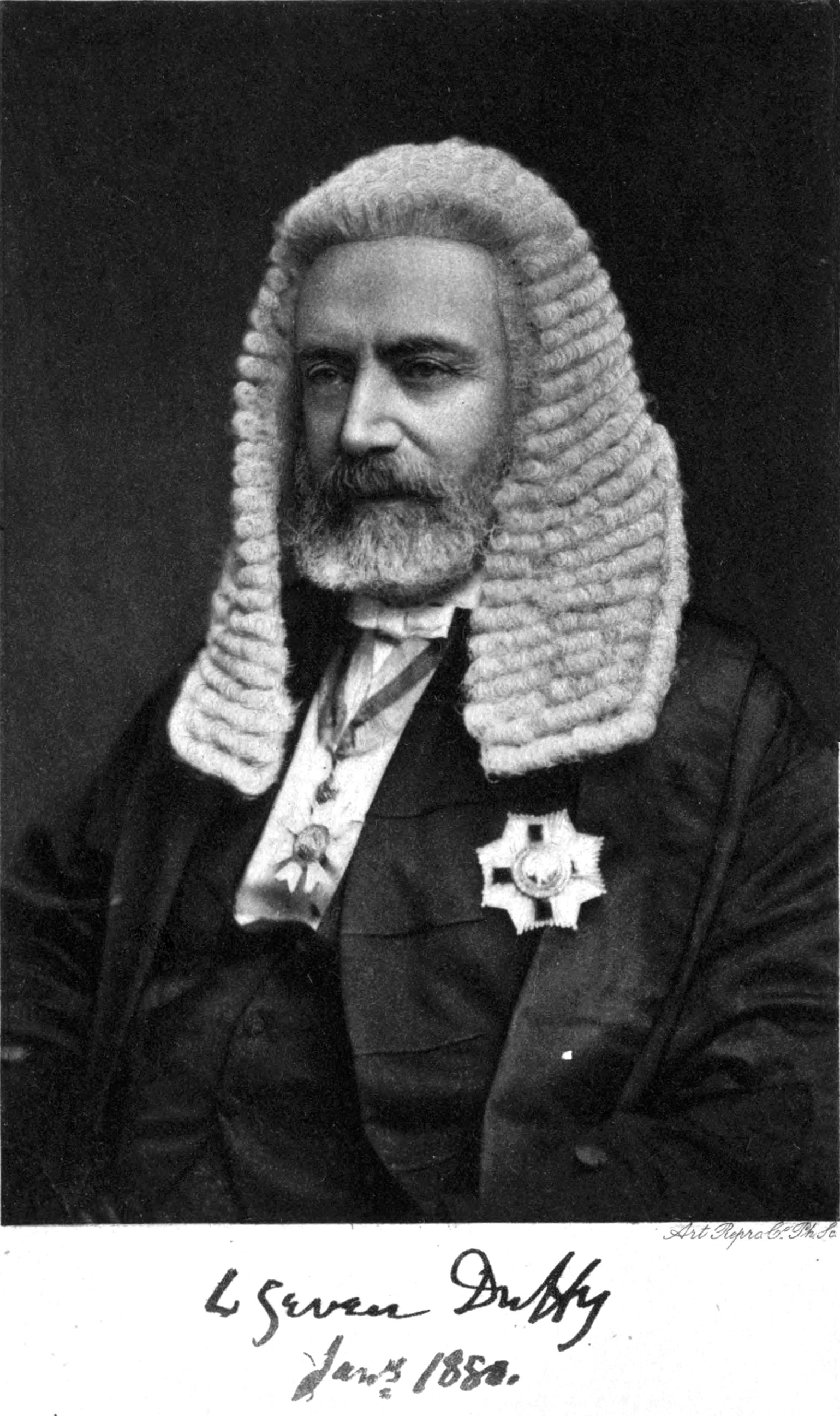 Image of Charles Gavan Duffy, 1880, taken from his autobiography. As Speaker of the Victorian Legislative Assembly